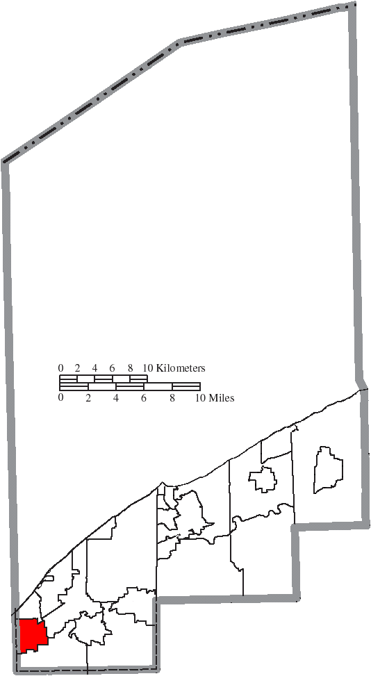 Map of the municipal and township boundaries of Lake County, Ohio, United States, as of the 2000 census, with the location of the city of Wickliffe highlighted. Township borders are shown only in unincorporated areas in order to differentiate incorporated and unincorporated areas more clearly.